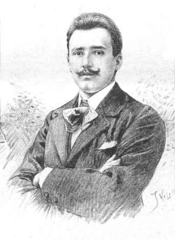 Portrait of Rudolf Berger (1874-1915), Austrian opera singer. Cropped from a gallery of artists connected with a municipal theater in Olomouc.